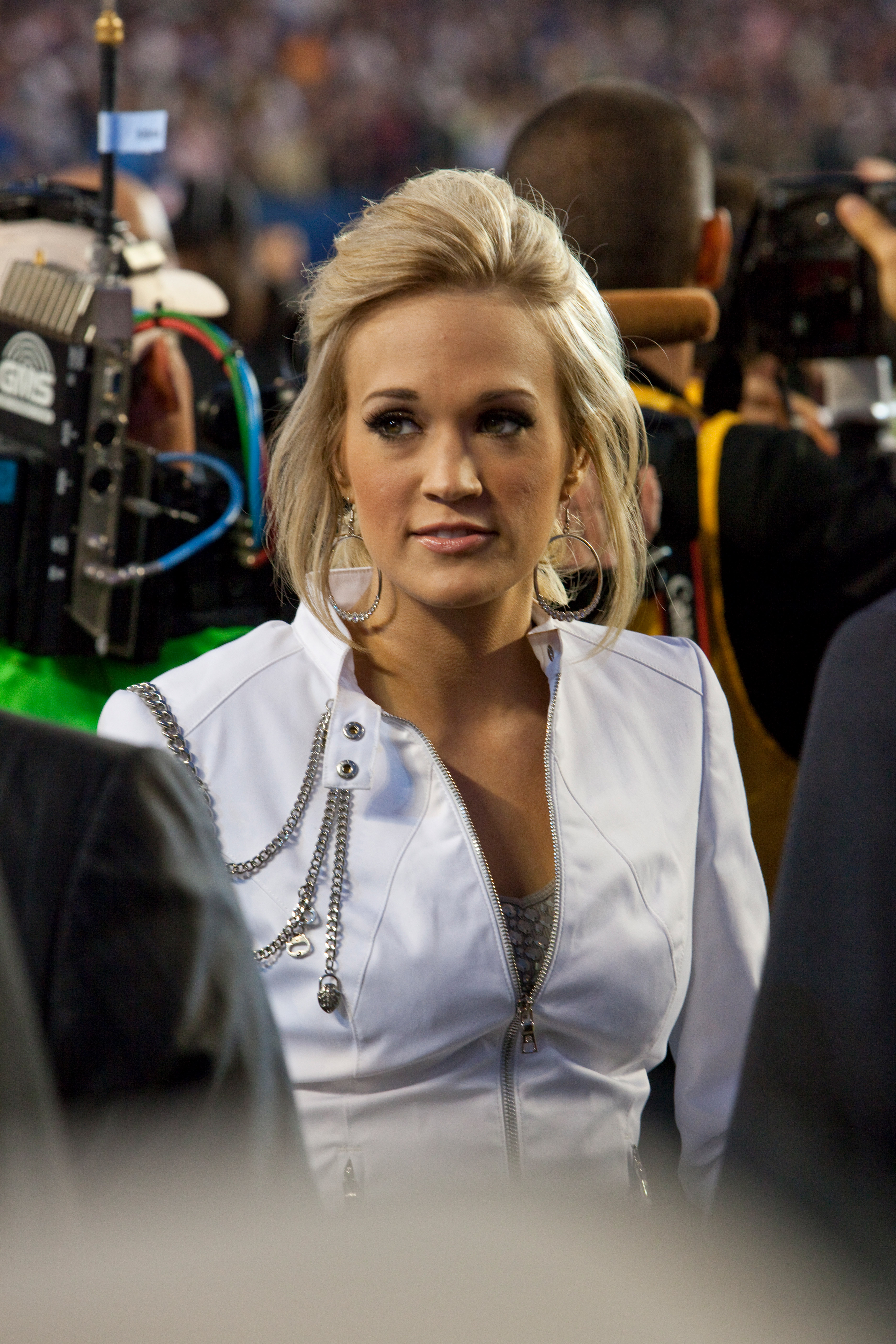 see more at